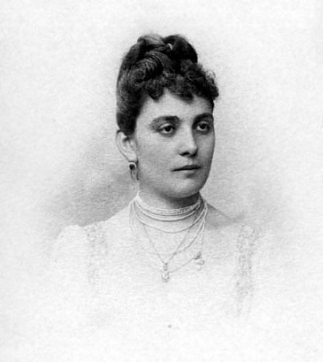 Georgian noblewoman Tamara Chavchavadze